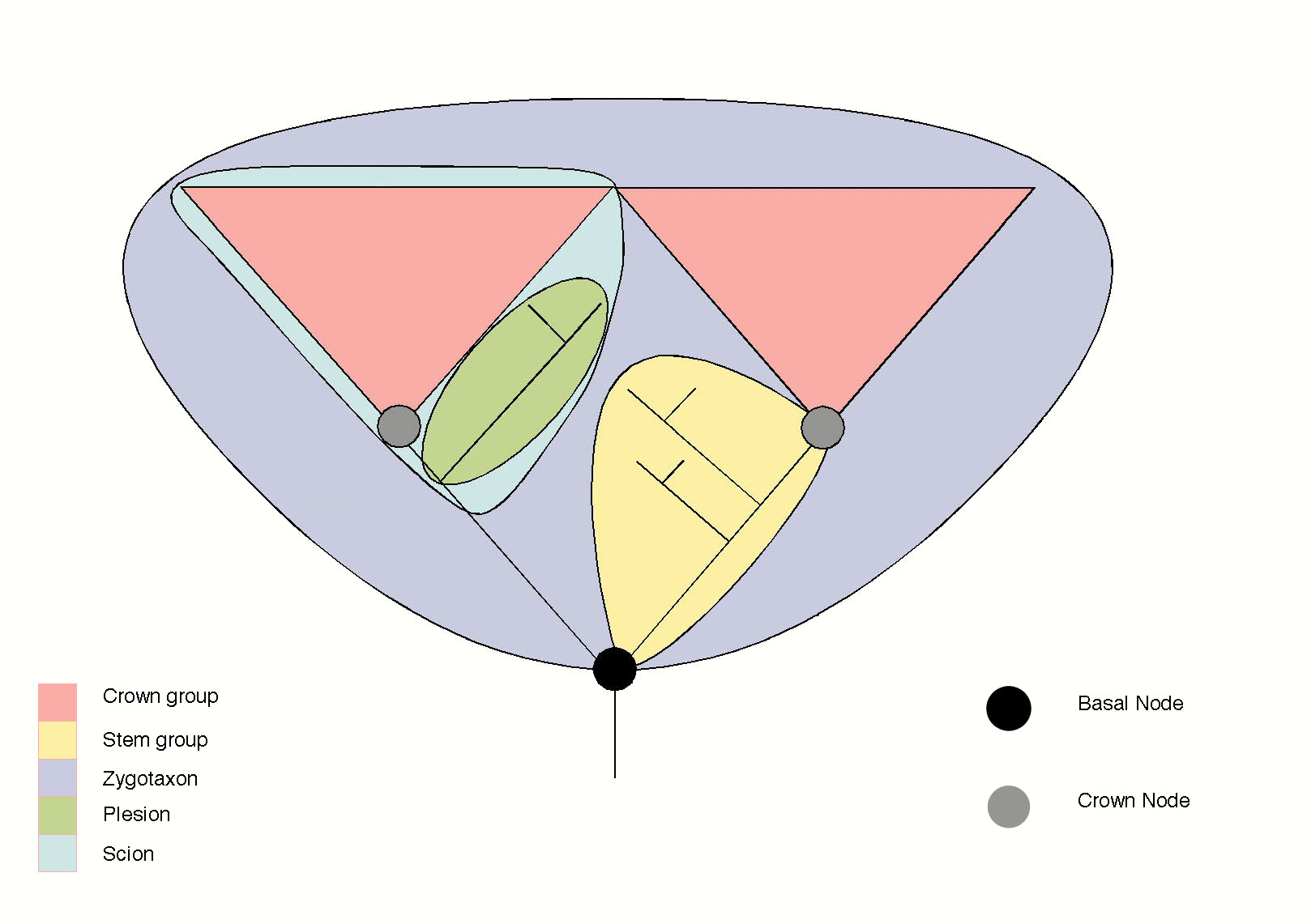 The stem and crown group concept. The two pink groups represent a pair of crown groups, the last common node of which is the basal node. Terminology is from Craske, A. J. and Jefferies, R. P. S. (1989) A new mitrate from the Upper Ordovician of Norway, and a new approach to subdividing a plesion. Palaeontology 32, 69–99 and Budd, G. E. (2001) Tardigrades as ’stem-group’ arthropods: the evidence from the Cambrian fauna. Zoologischer Anzeiger 240, 265–279. This biology image could be re-created using vector graphics as an SVG file. This has several advantages; see Commons:Media for cleanup for more information. If an SVG form of this image is available, please upload it and afterwards replace this template with vector version available|new image name . It is recommended to name the SVG file "Stemgroups.svg" - then the template Vector version available (or Vva) does not need the new image name parameter. This biology image was uploaded in the JPEG format even though it consists of non-photographic data. This information could be stored more efficiently or accurately in the PNG or SVG format. If possible, please upload a PNG or SVG version of this image without compression artifacts, derived from a non-JPEG source (or with existing artifacts removed). After doing so, please tag the JPEG version with Superseded|NewImage.ext and remove this tag. This tag should not be applied to photographs or scans. For more information, see BadJPEG .